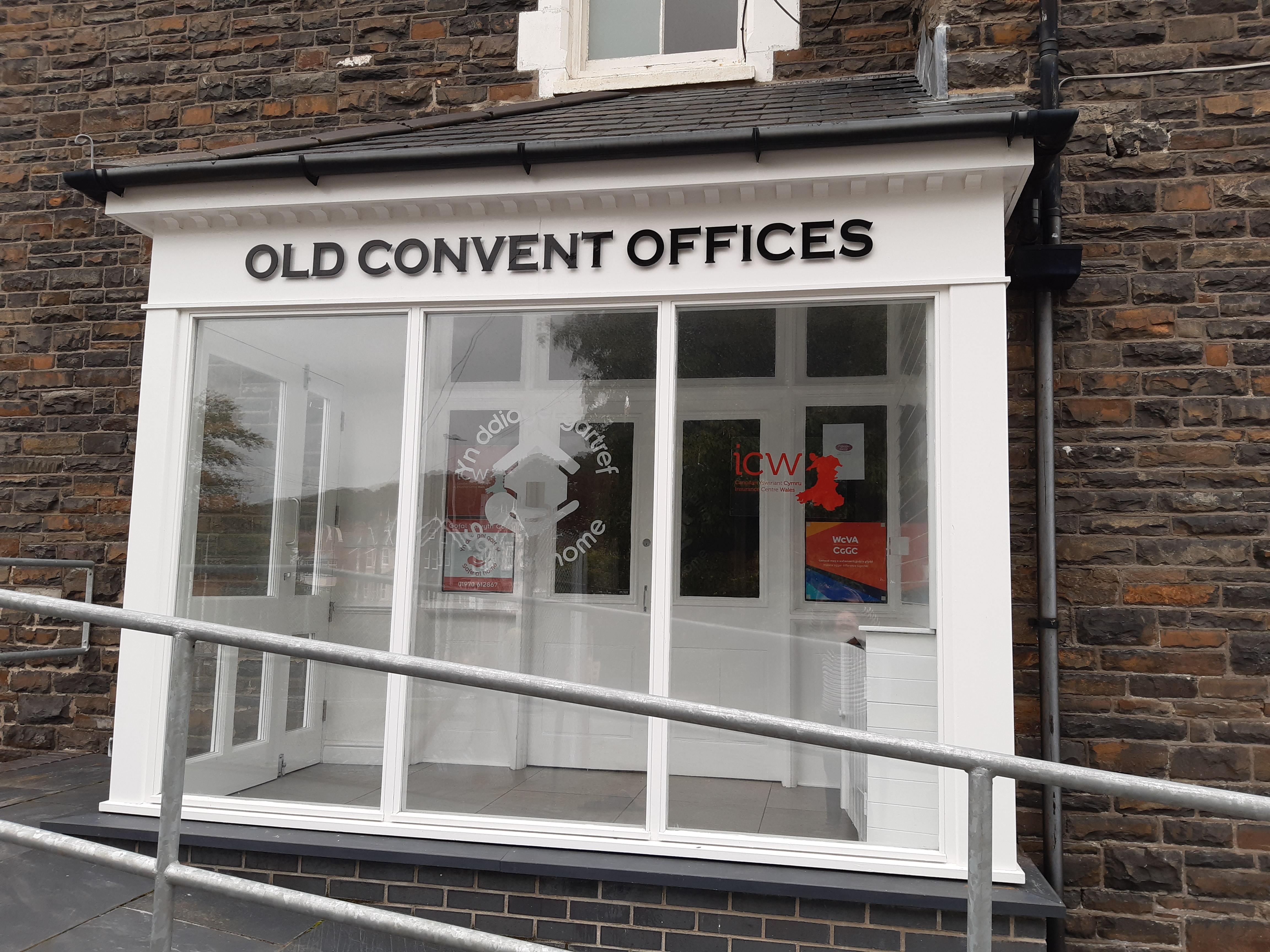 Welsh Council of Voluntary Action Aberystwyth office close-up, August 2020